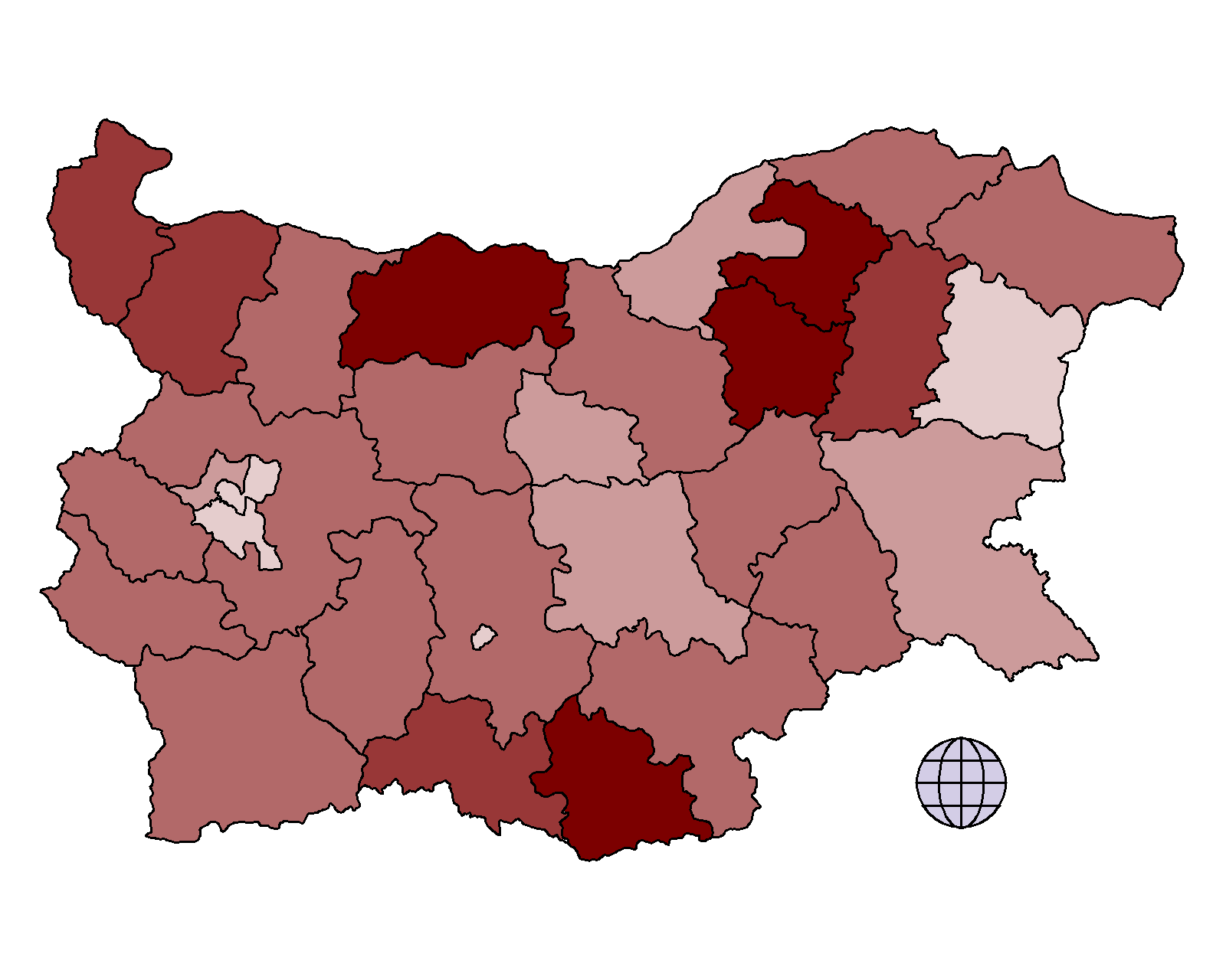 Results of Bulgarian nuclear power referendum, 2013 by electoral district.